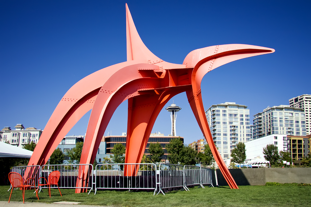 Name: Eagle Artist: Alexander Calder (1898-1976) Date: 1971 Media: Painted steel Dimensions: 38 feet 9 inches by 32 feet 6 inches by 32 feet 6 inches Location: Olympic Sculpture Park, Seattle, WA.